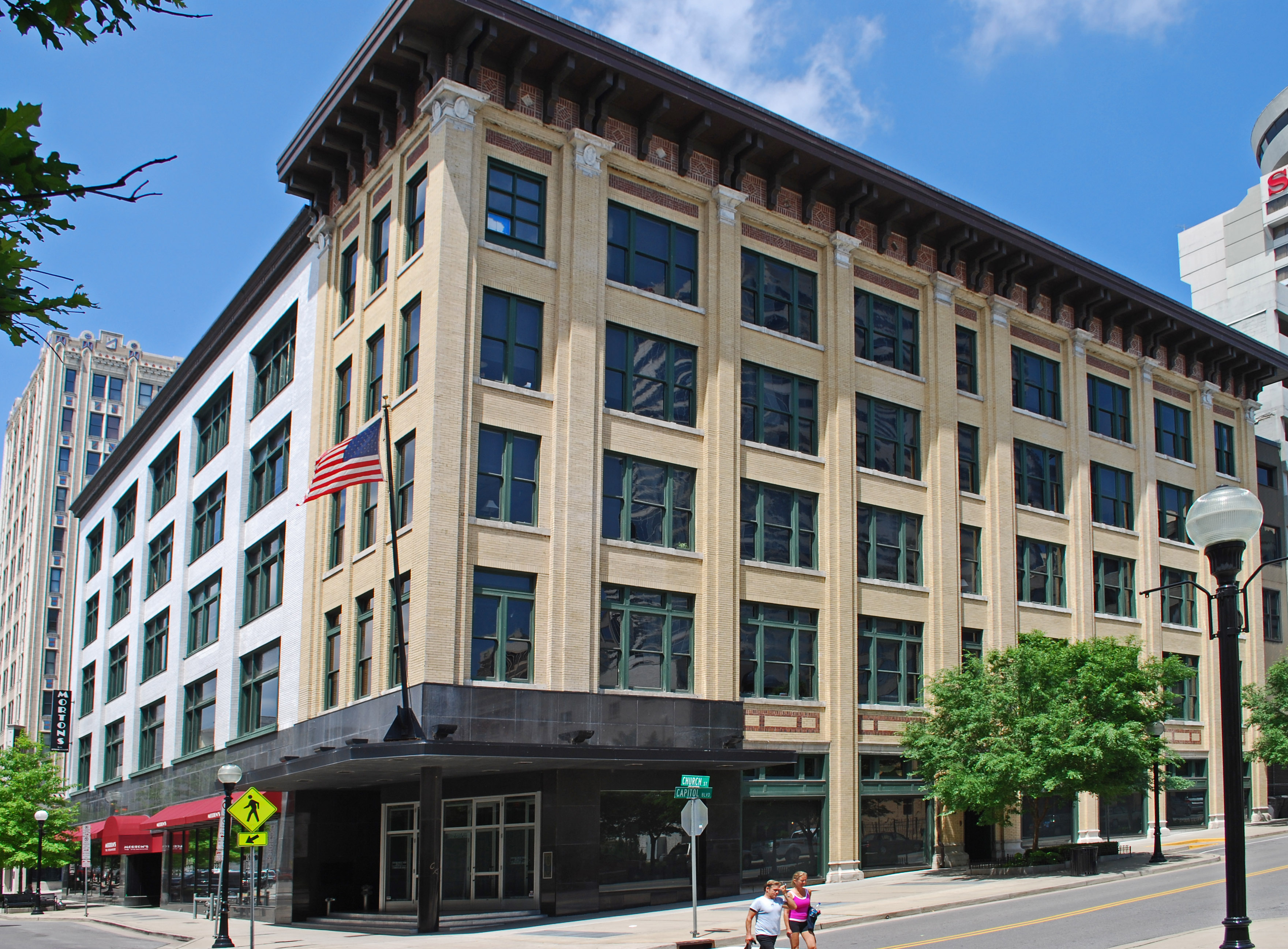 Castner-Knott Building, Nashville TN, headquarters of Small Smiles (Church Street Health Management, formerly FORBA